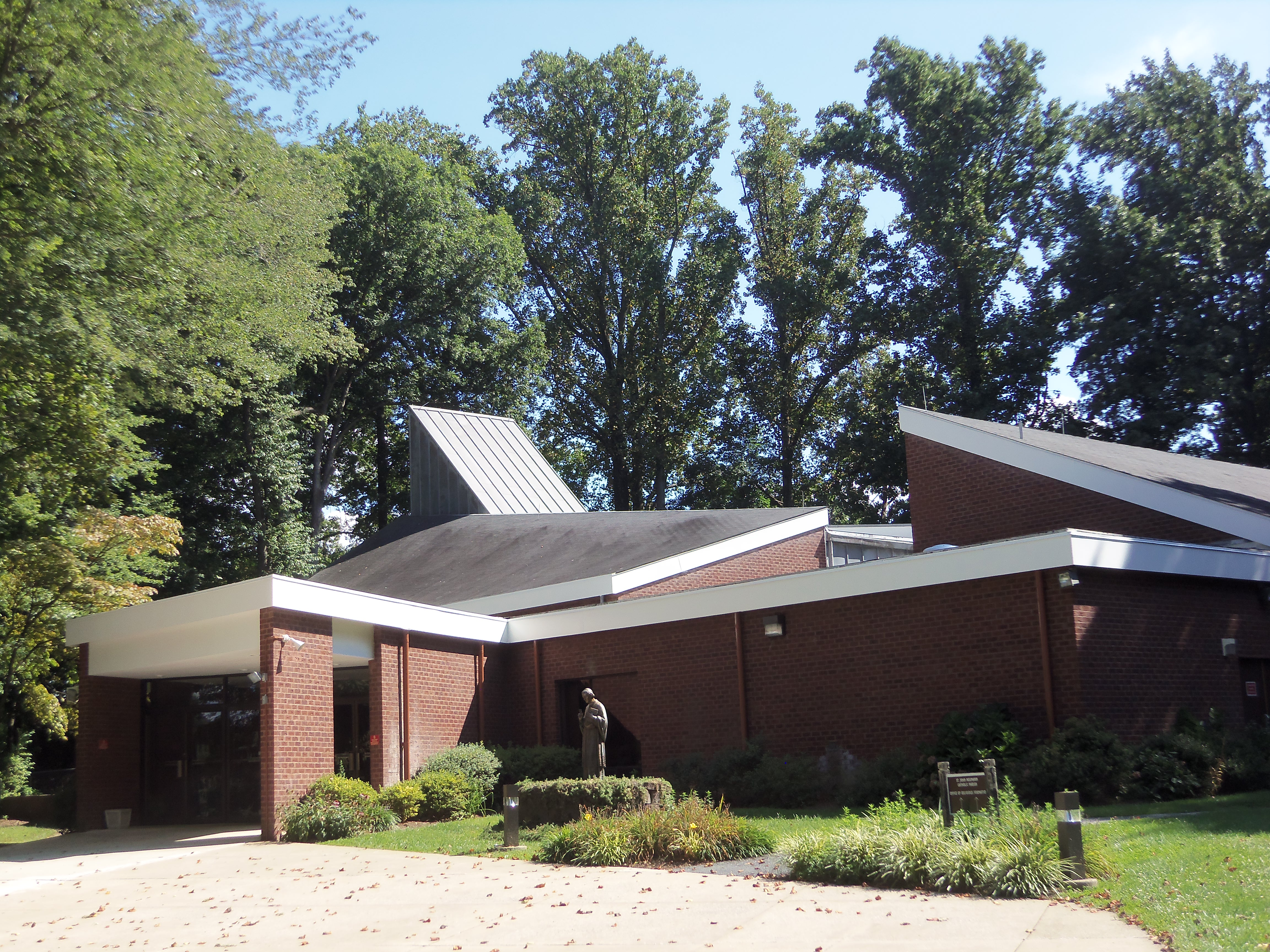 Saint John Neumann Catholic Church in Montgomery Village, Maryland.